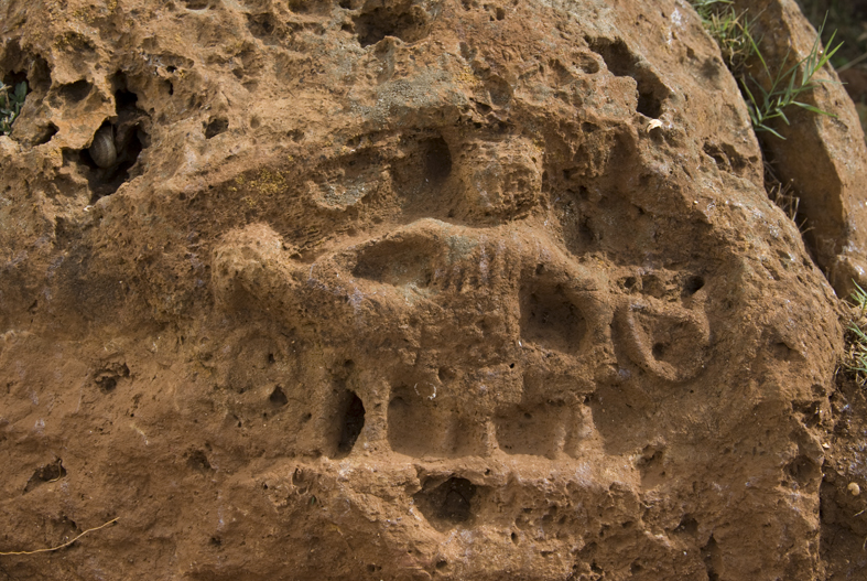 Saturnrelief in Chimtou, Tunesien